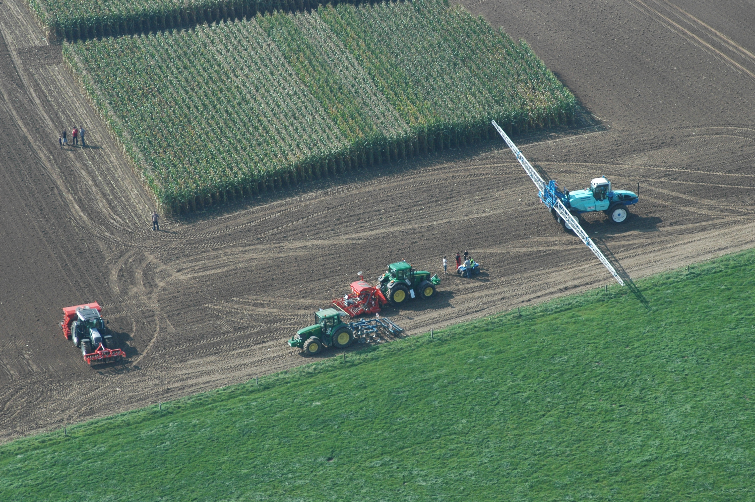 Some agricultural machines at Werktuigendagen 2007